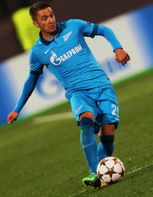 Viktor Fayzulin